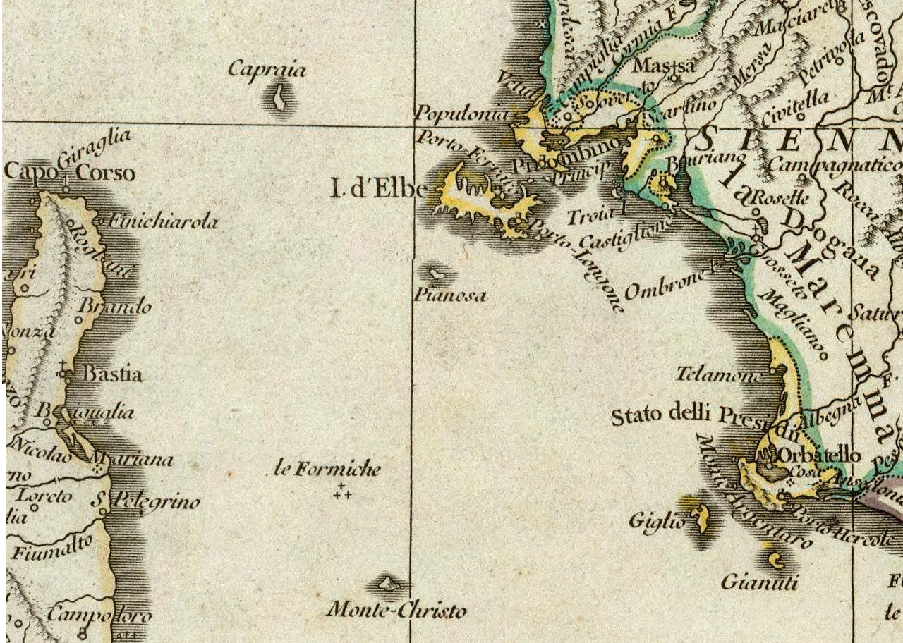 The Tuscan coast from the Principality of Piombino to the State of the Presidios, with the eastern coast of Corsica on the left. Cropped from a map of Italy by J. B. d'Anville published in 1743.